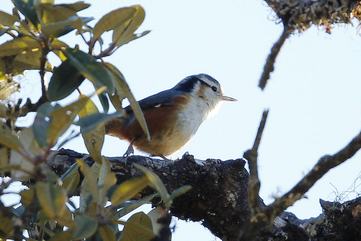 White-browed Nuthatch (Sitta victoriae)